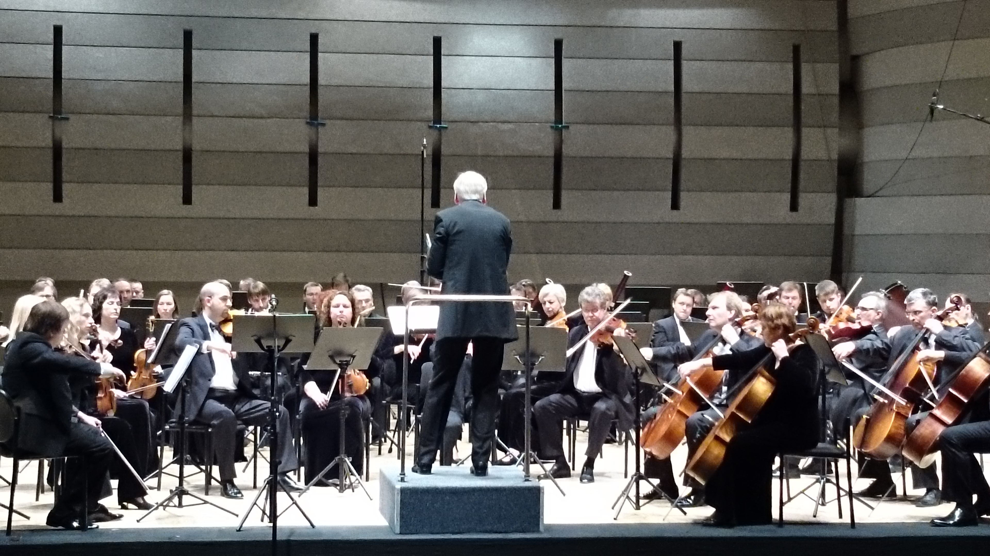 Lithuanian State Symphony Orchestra